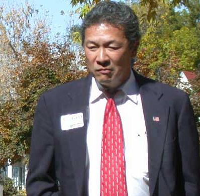 Stan Matsunaka (shown right) before a debate with Marilyn Musgrave at a meeting of the Rotary International in Fort Collins, Colorado (taken Oct. 13, 2004)